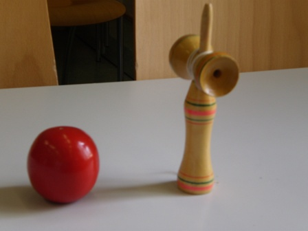 Kendama with ball seperated